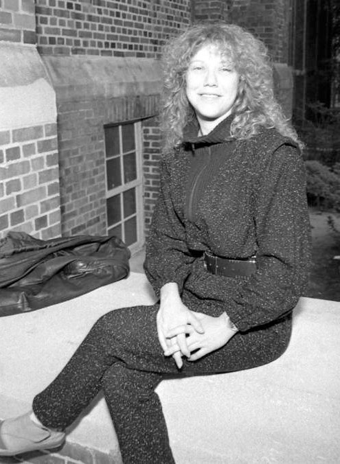 Portrait of dance writer, critic, historian and lecturer, Sally Banes